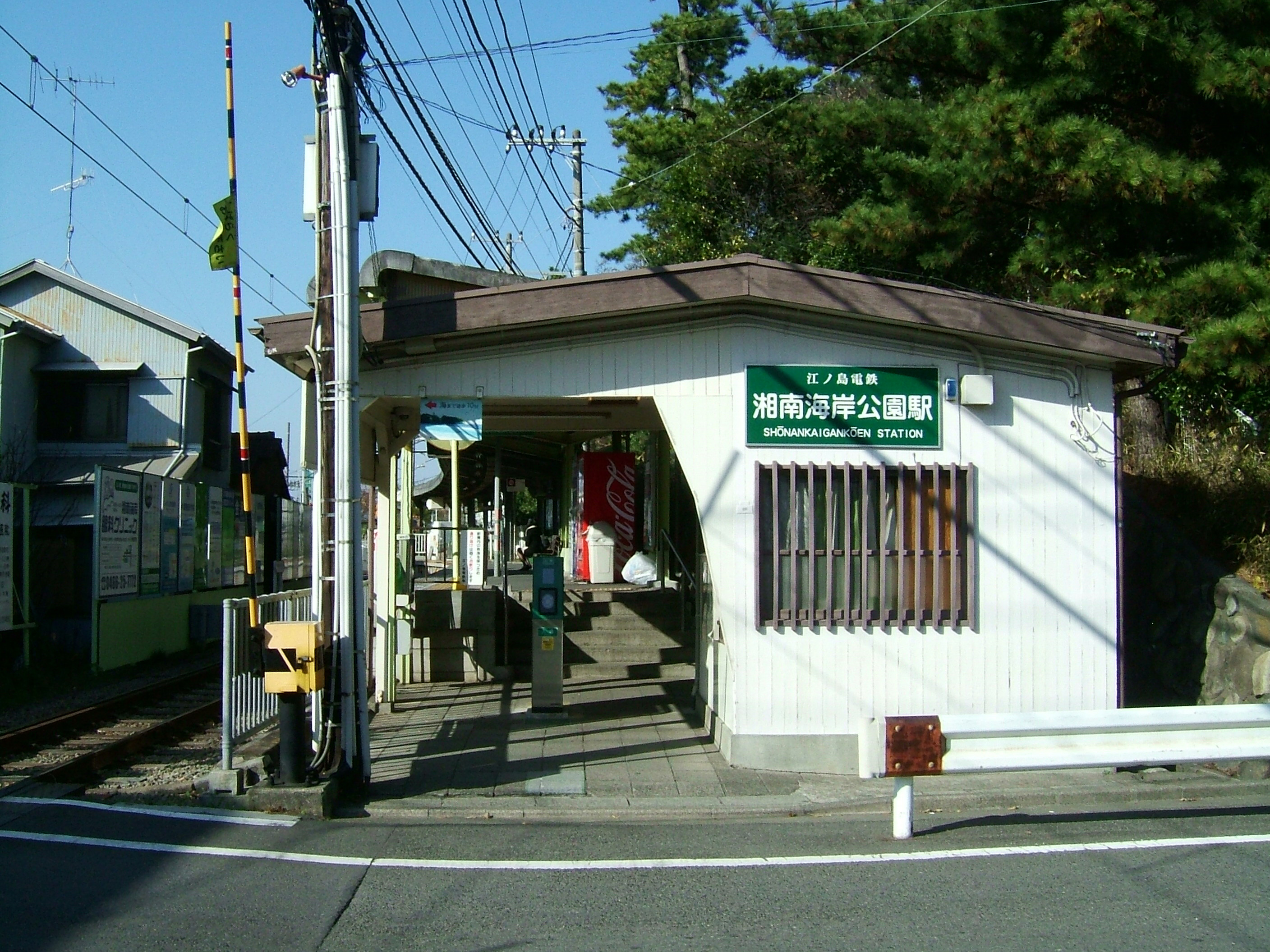 The building of Shōnan-Kaigan-Kōen Station on the Enoden Line in Fujisawa city, Kanagawa prefecture, Japan